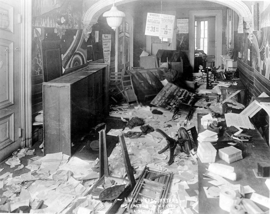 Photographer: Unknown Subjects (LCSH): Industrial Workers of the World -- History. Industrial Workers of the World. Digital Collection: Industrial Workers of the World Photograph Collection Item Number: Persistent URL: Visit the Labor Archives of Washington State, UW Special Collections reproductions and rights page for information on ordering a copy. University of Washington Libraries. Labor Archives Digital Collections. Related Resources: Labor Archives of Washington State Website Labor Archives of Washington State Collection Guide Finding aid to the Industrial Workers of the World Photograph Collection, Labor Archives of Washington State, University of Washington Libraries Special Collections Finding aid to the Industrial Workers of the World Seattle Joint Branches Records, Labor Archives of Washington State,University of Washington Libraries Special Collections Finding aid to the Industrial Workers of the World Seattle Joint Branches Records, Labor Archives of Washington State, University of Washington Libraries Special Collections Finding aid to the Everett Prisoners' Defense Committee Records, Labor Archives of Washington State, University of Washington Libraries Special Collections